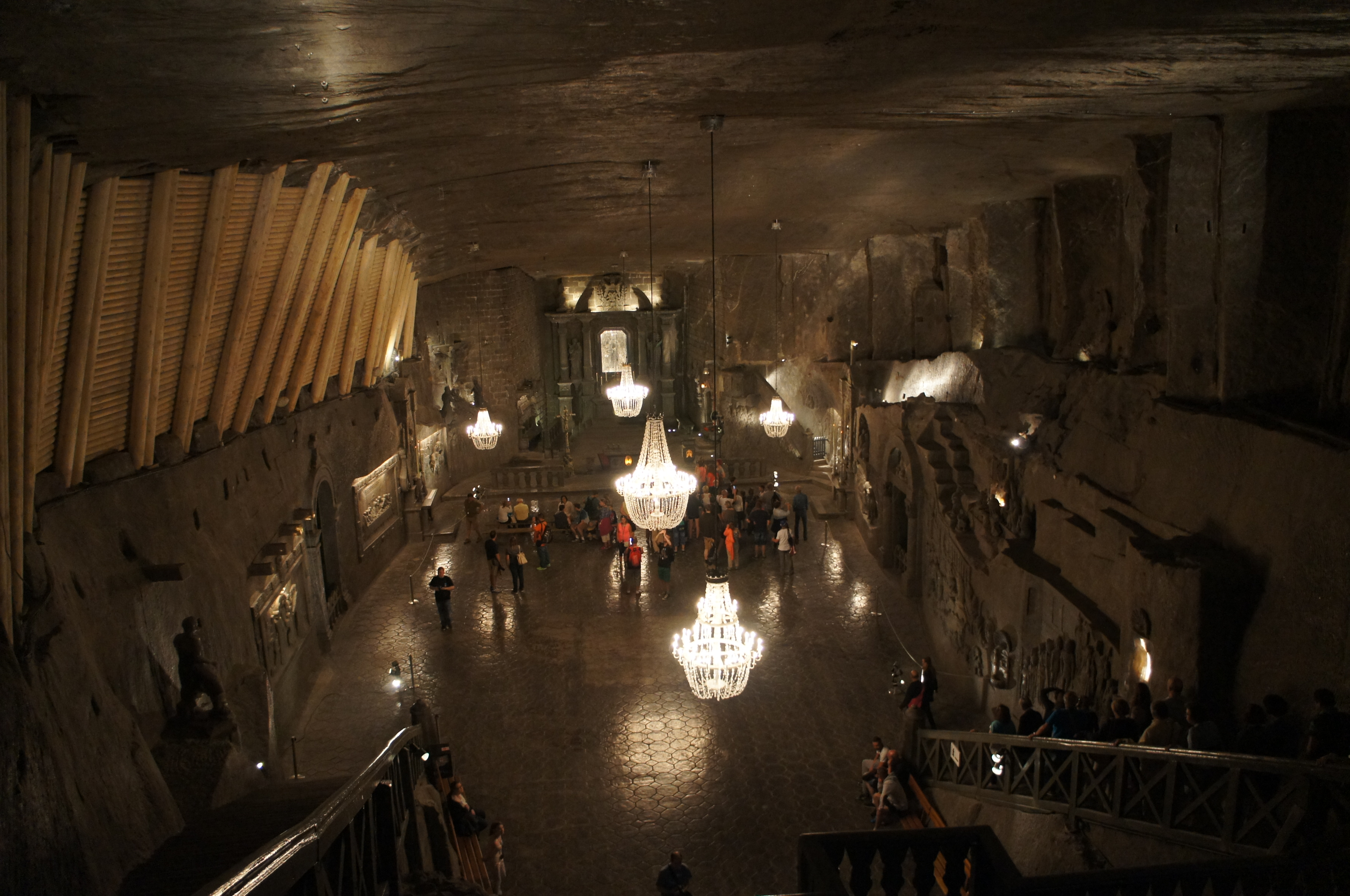 Wieliczka salt mine